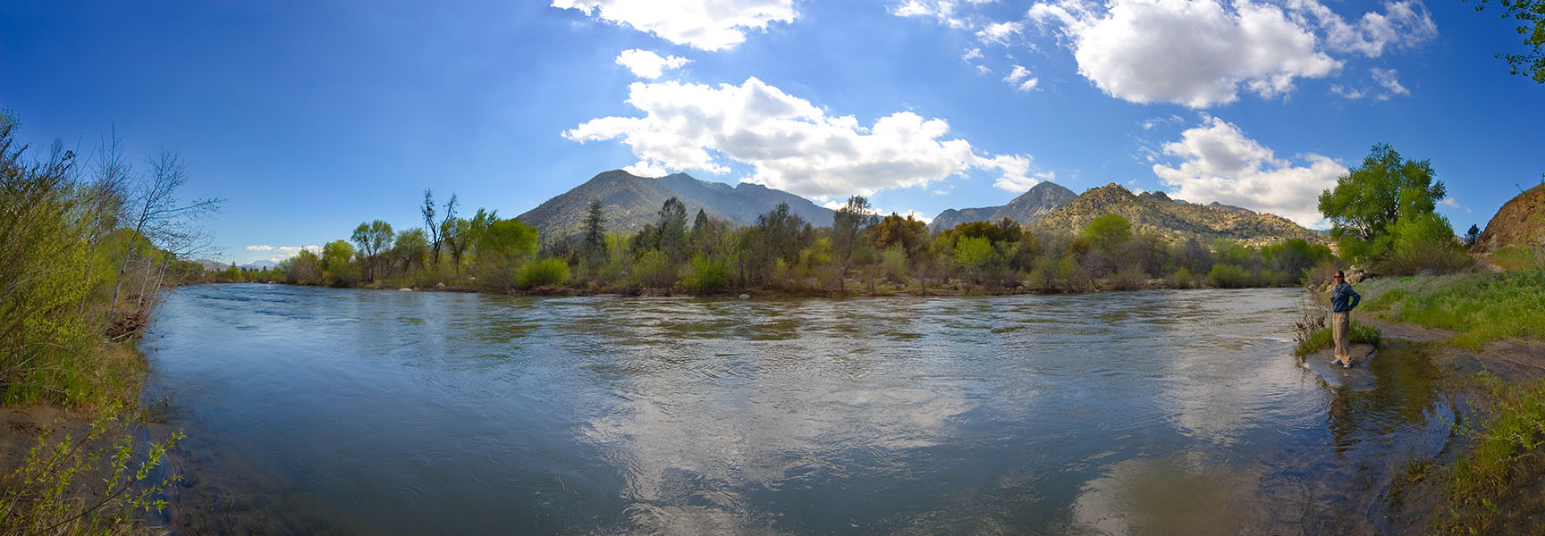 Panorama of the upper fork of the Kern River, Sierra Nevada, Kern County, California.